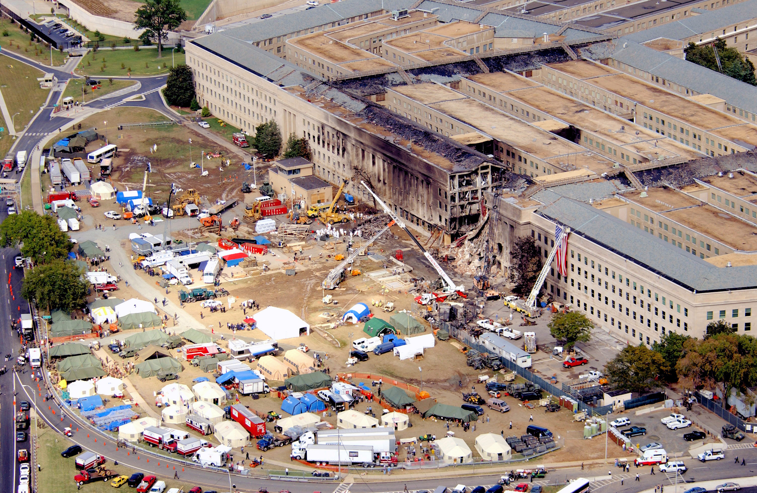 An aerial view, from the southeast, showing the level of the destruction at the Pentagon caused by a terrorist attack. The morning of September 11th, in an attempt to frighten the American people, five members of Al-Qaida, a terrorist group of fundamentalist Muslims, hijacked American Airlines Flight 77, then deliberately impacted the Pentagon killing all 64 passengers onboard and 125 people on the ground. The impact destroyed or damaged four of the five rings in that section of the building. Firefighters fought the fire through the night. The Pentagon was the third target by four hijacked aircraft, the twin towers of the World Trade Center (WTC) were the other targets, and one unknown when the passengers brought the aircraft down in a Pennsylvania field. 9/14/2001; National Archives (accessed 9/3/2016) Camera Operator: TSGT Cedric H. Rudisill, USAF Series: Combined Military Service Digital Photographic Files, 1982 - 2007 Record Group 330: Records of the Office of the Secretary of Defense, 1921 - 2008